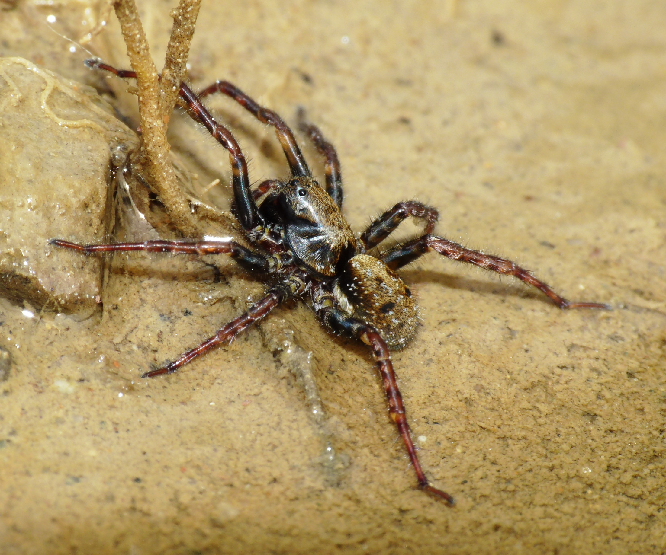 Arctosa leopardus, near Livorno, Tuscany, Italy